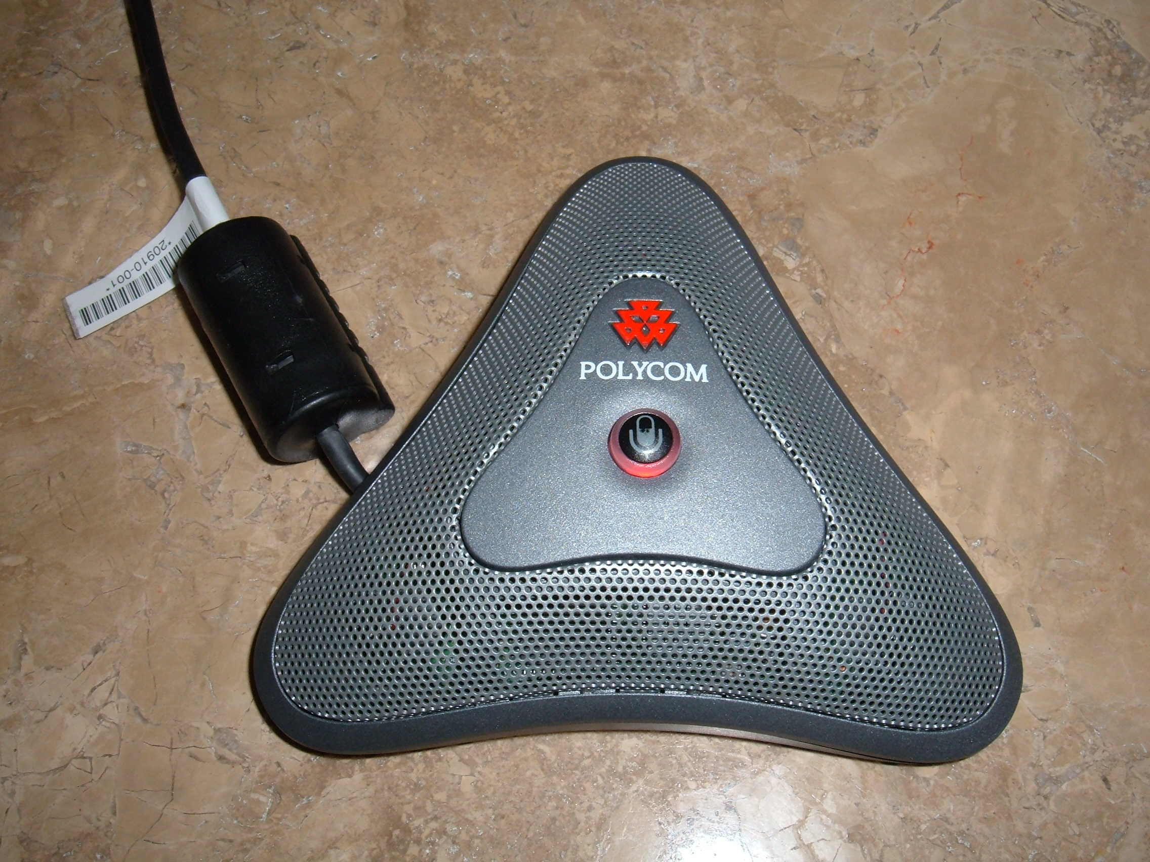 A Polycom microphone/speaker. This example is used in conjunction with a Polycom Soundstation.